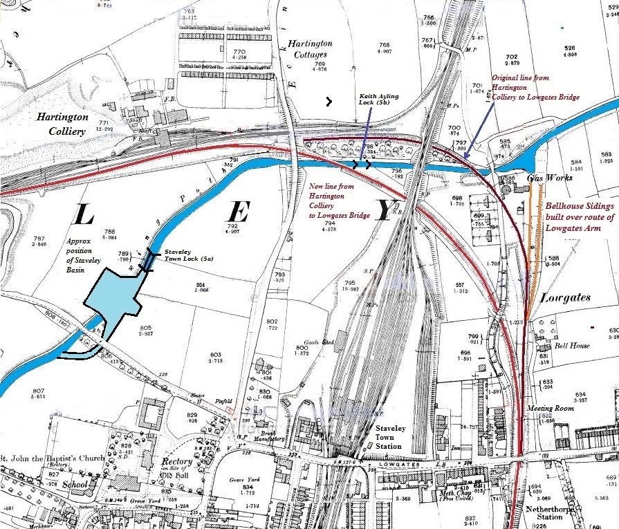 A map showing the vicinity of Staveley Basin in 1898